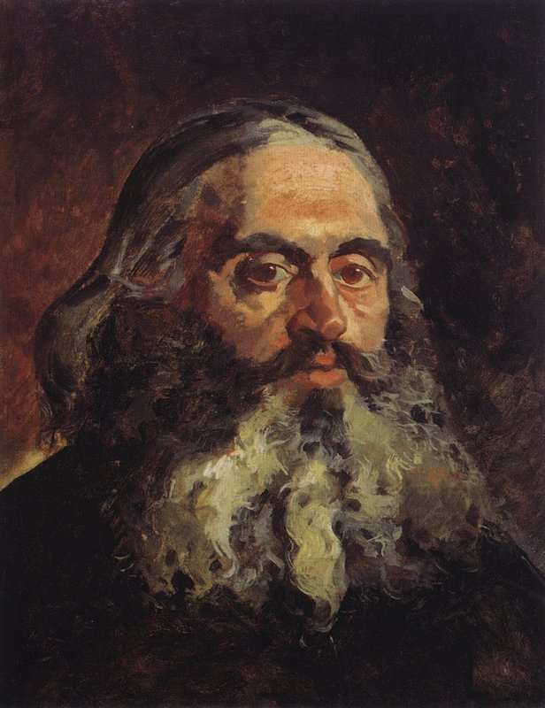 Head of Andrew the Apostle (study for "The Last Supper", by Nikolai Ge, early 1860s)